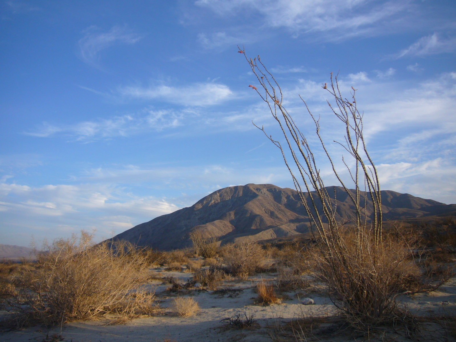 Coyote Mountain and Clark Valley — in Anza-Borrego Desert State Park, San Diego County, California.